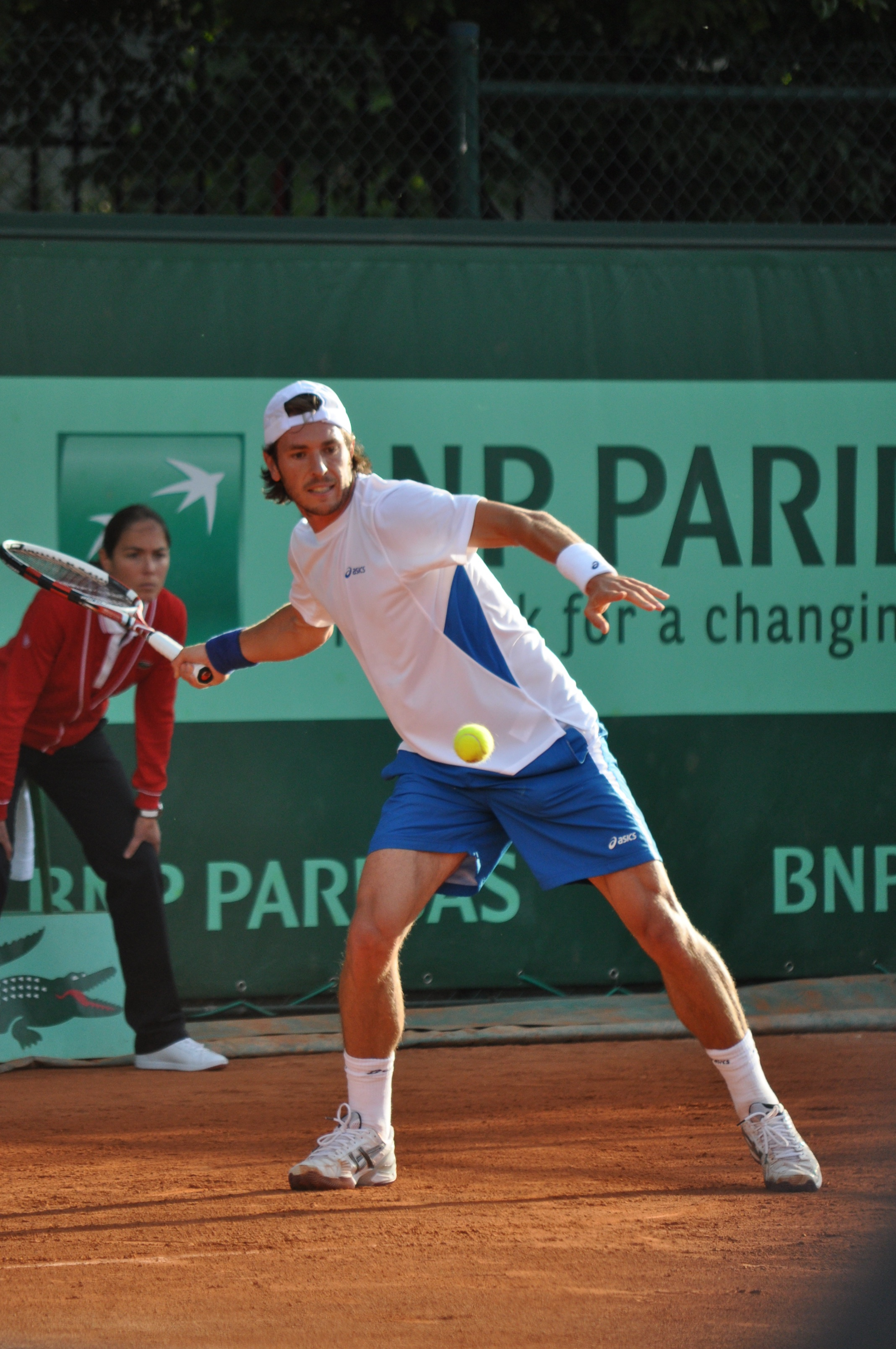 Pictures take on 1st round of qualifications of Roland Garros 2011